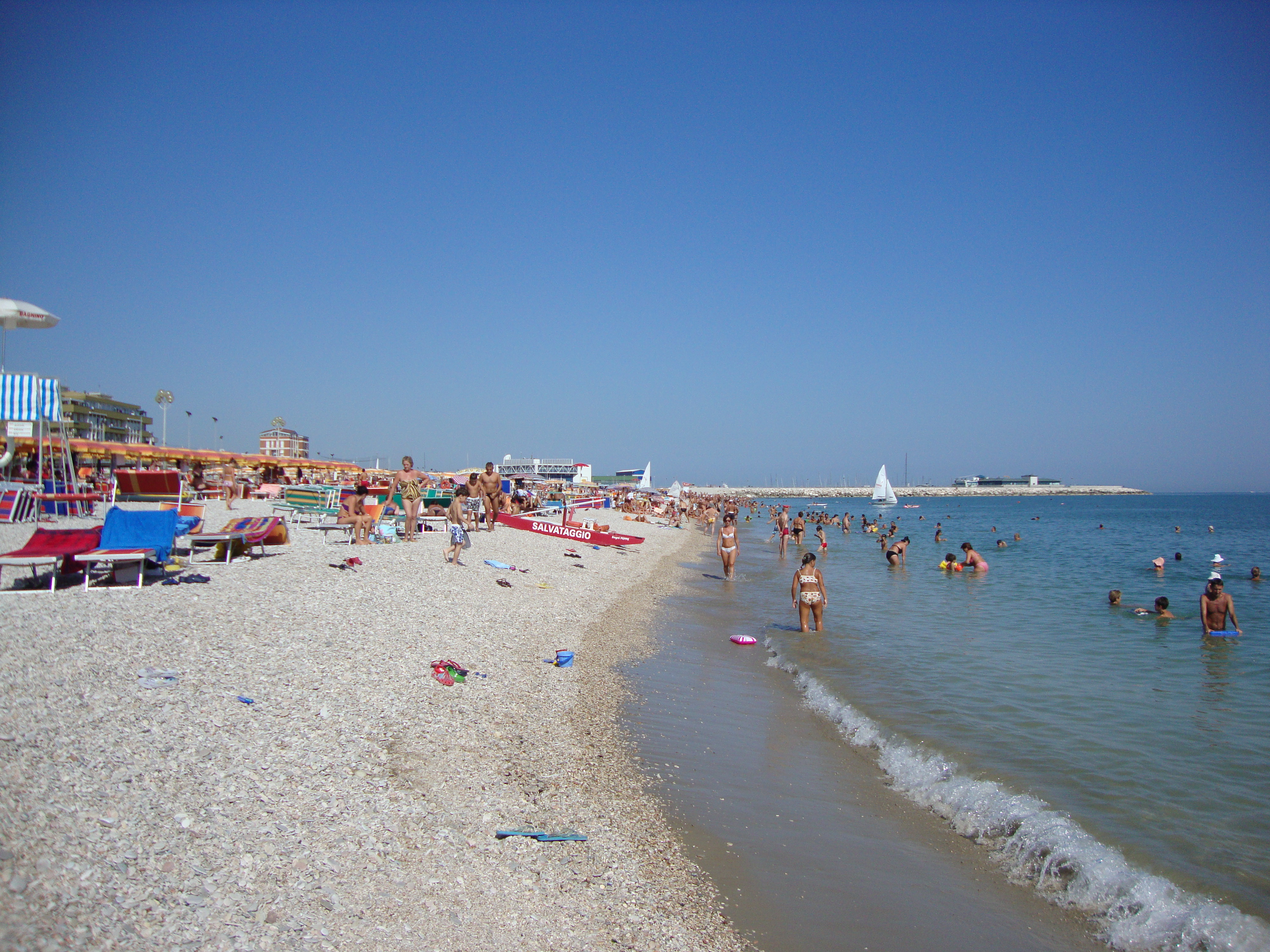 Fano Beach